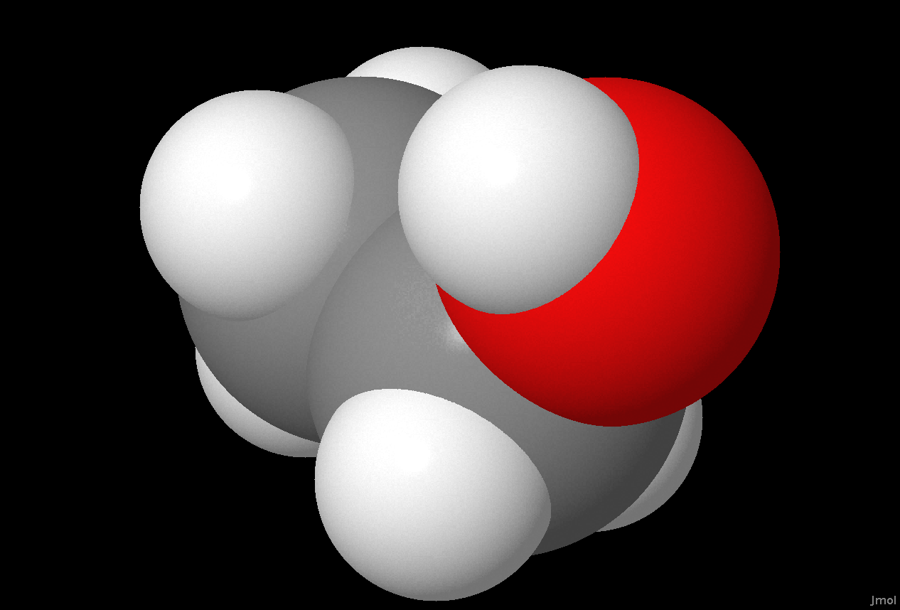 3D model (space filling) of ethanol Hydrogen Carbon Oxygen